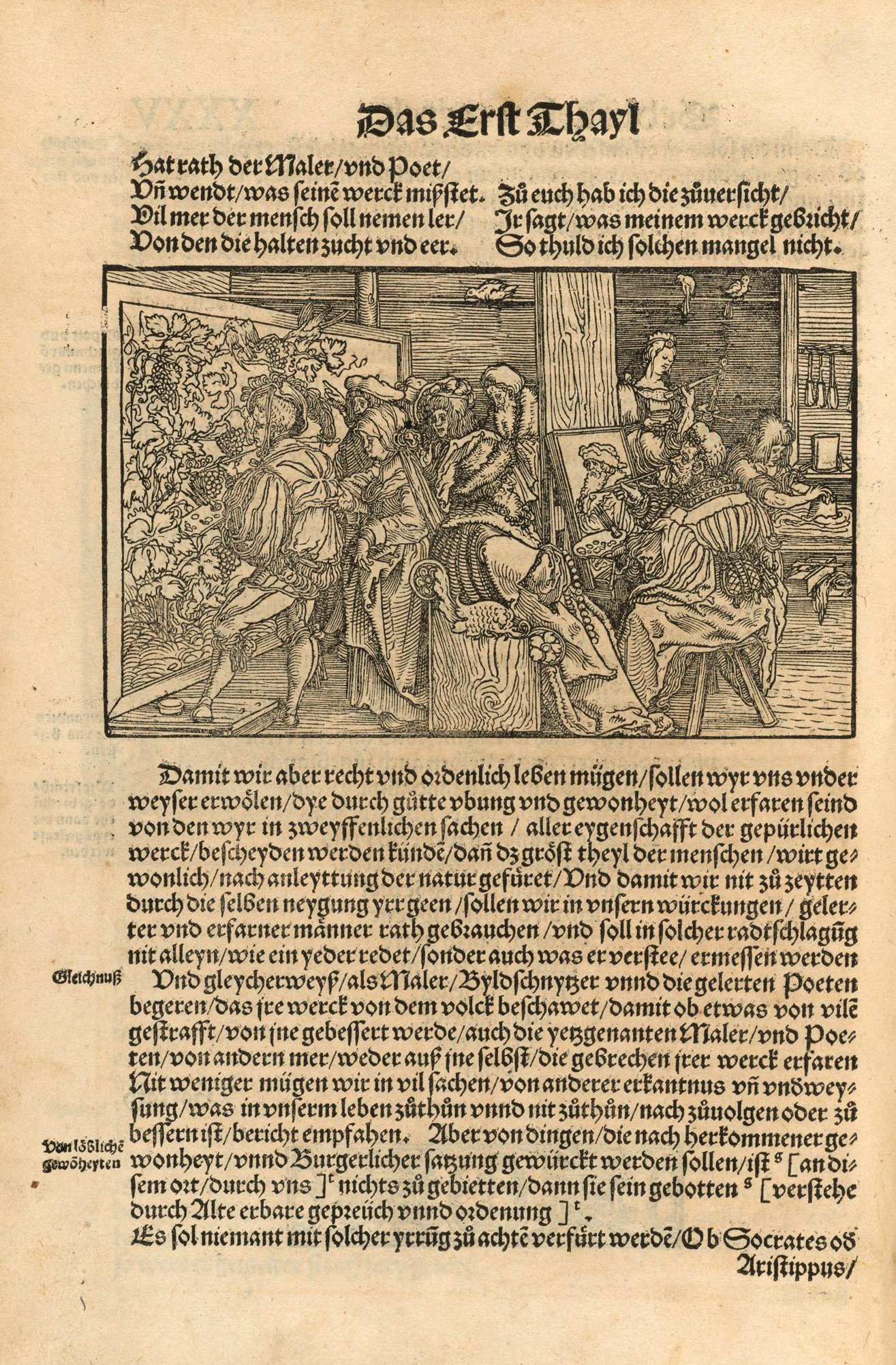 Image XXXV from German edition of De officiis by Marcus Tullius Cicero, 1531. Typ 520.31.282